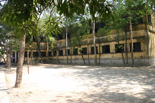 The smaller building of the school which hosts classes for class V to VII and Primary section